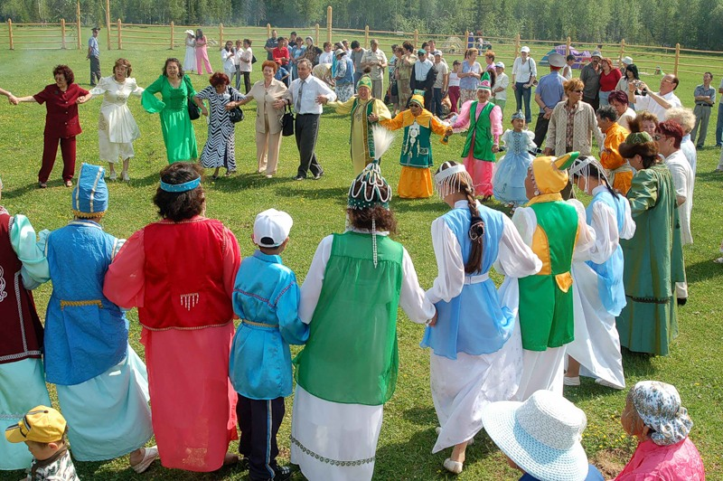 The Yakut national dance Ohuokhai